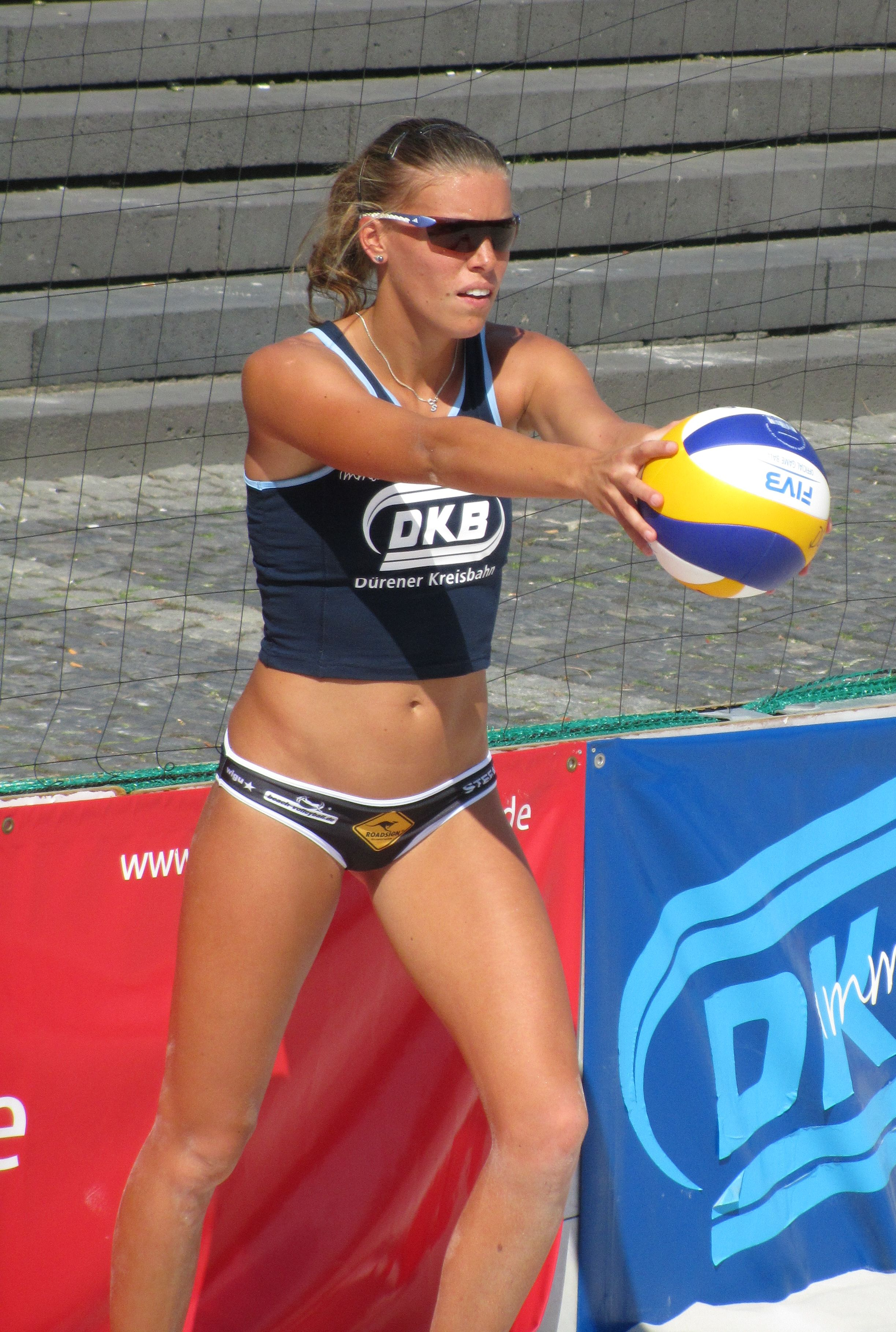 the German beach volleyball player Stefanie Hüttermann at the DKB Beach Cup 2011 in Düren, Germany